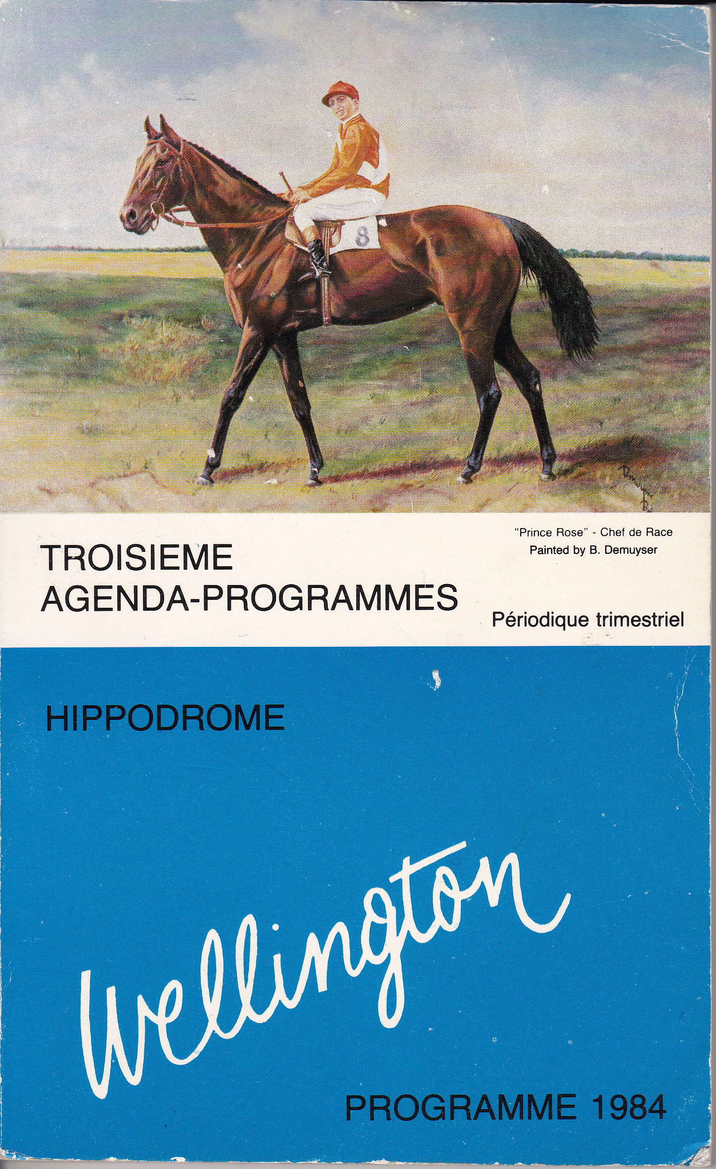 PRINCE ROSE (Hervé Denaigre) painting by Bob Demuyser, Belgian animal painter, Hippodrome d'Ostend - July-August 1984 racing program